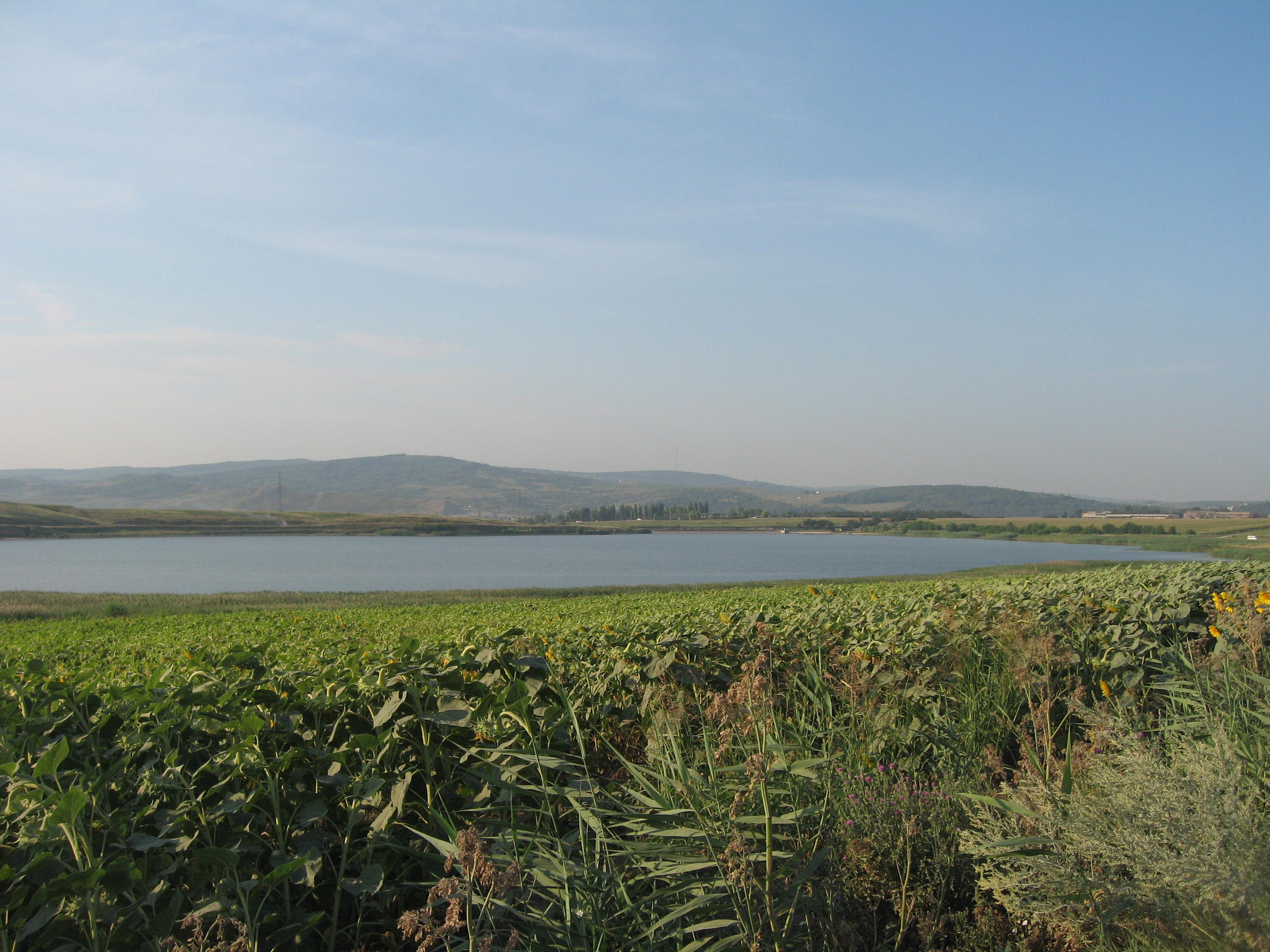 Barajul Chiriţa